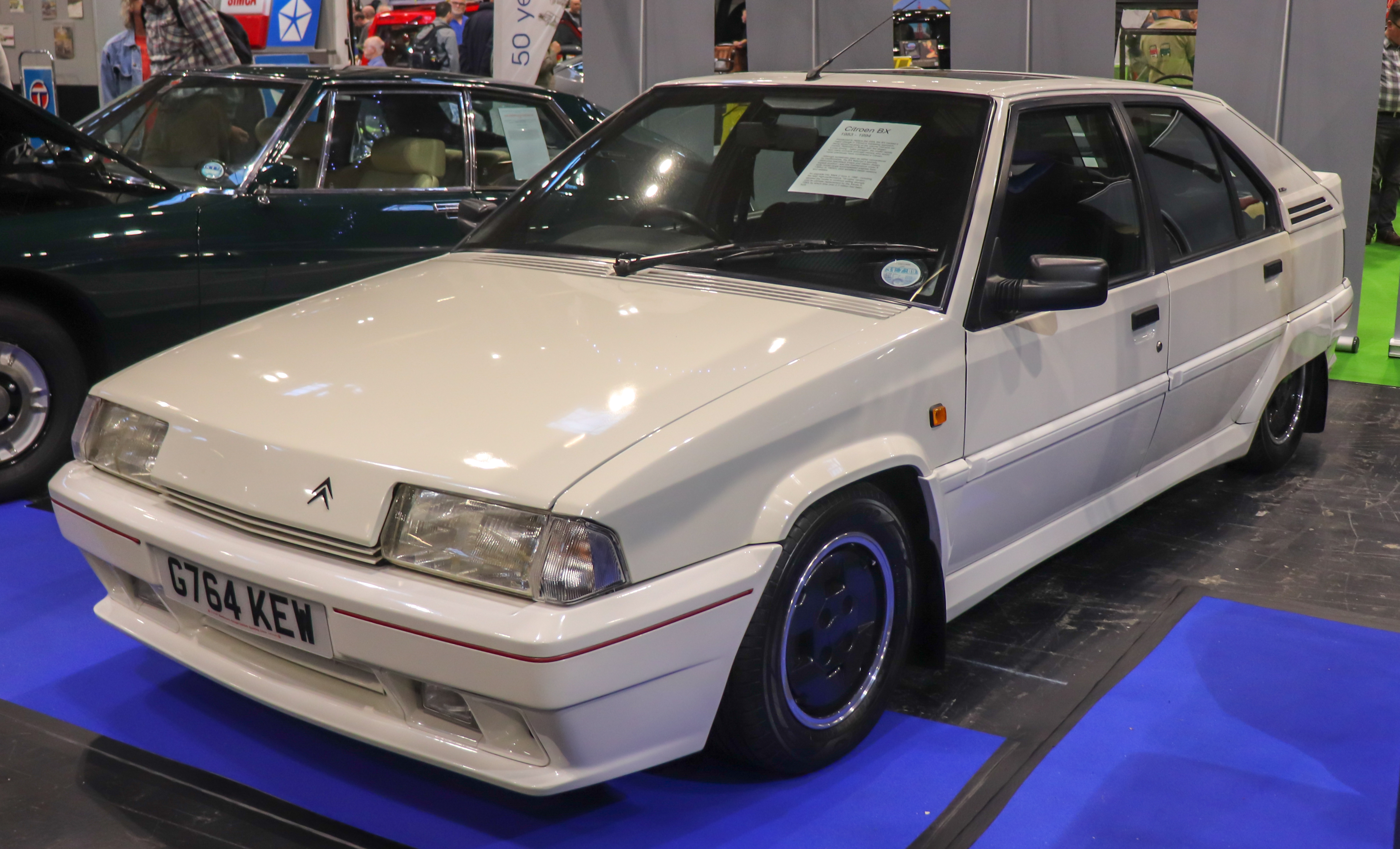 1989 Citroen BX GTi 16V 1.9 Taken at the NEC Classic Motor Show 2018